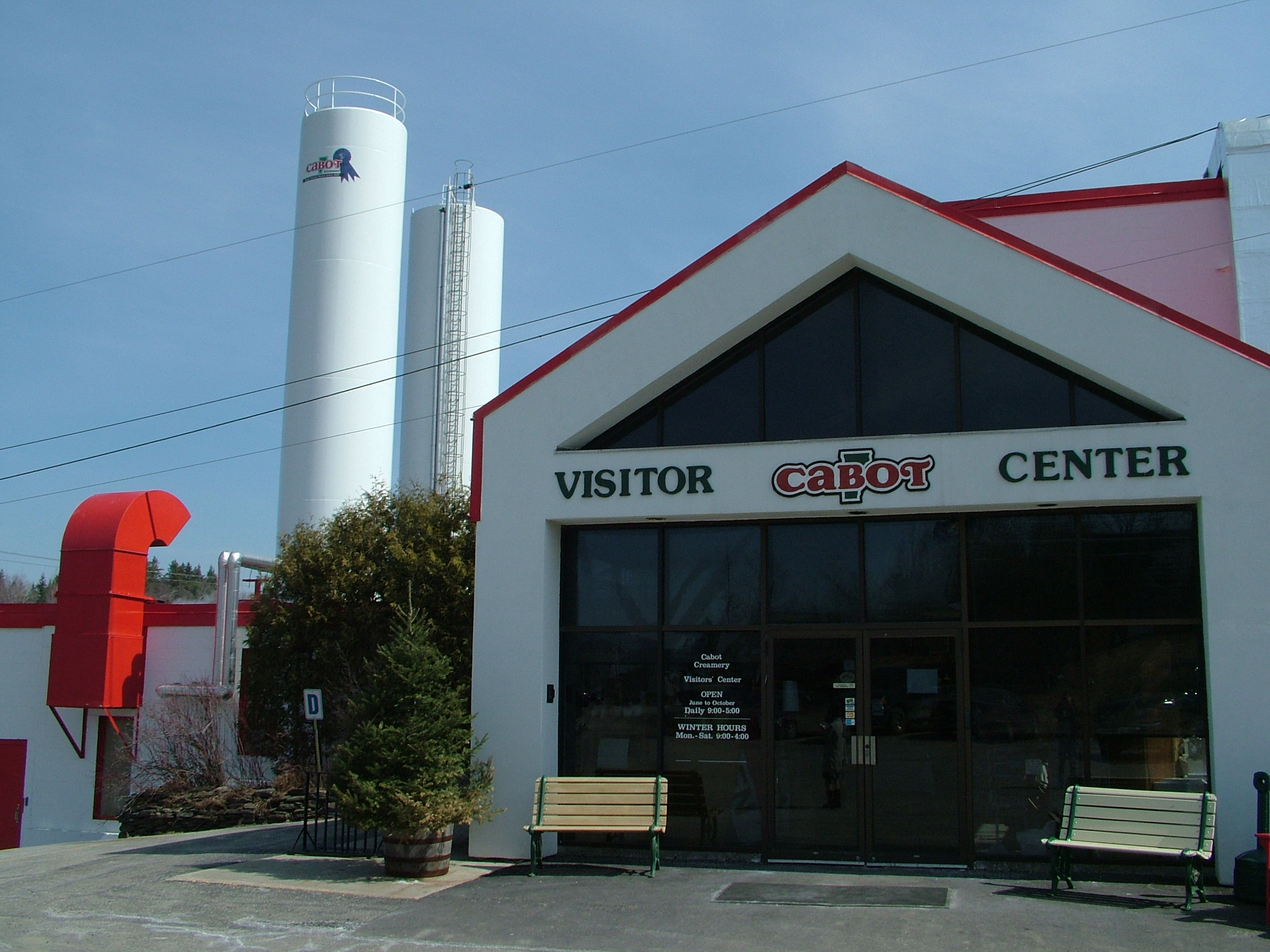 The entrance to the Cabot Creamery Visitor Center in Cabot, Vermont.